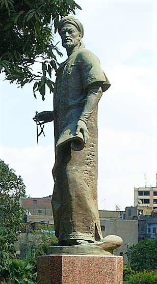 5 meters high Alfraganus memorial from bronze and granite near the nilometer, Roda island, Cairo, Egypt. The memorial was created 2007 by the Uzbek sculptor Djalalitdin Tursunovich Ravshan Mirtadjiev (*1954, Джалалитдин Турсунович Равшан Миртаджиев, روشن جلال الدين مرتاجييف) and is a present of Uzbekistan to Egypt.